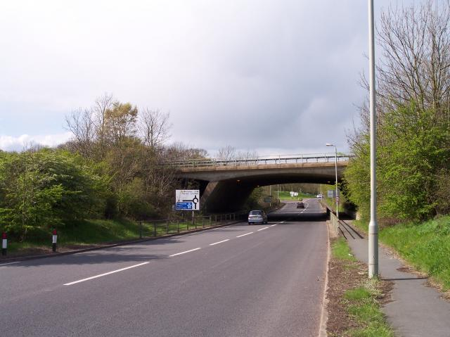 M50 Bridge over the A38 at M50 Junction 1. The A38 passes under the M50 in Worcestershire, England.